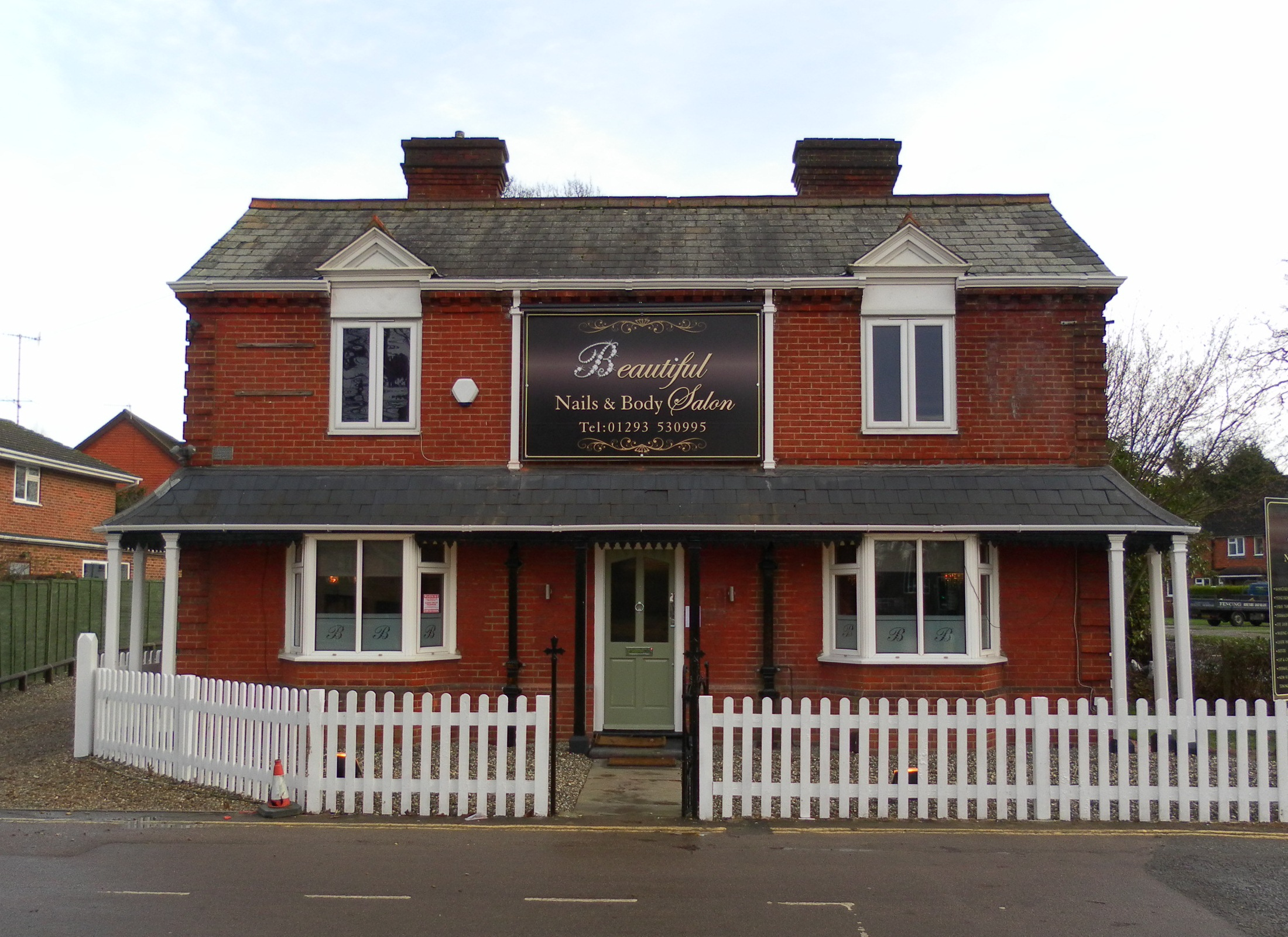 Worth Park Lodge, Worth Park Road, Pound Hill, Borough of Crawley, West Sussex, England. One of the borough's locally listed buildings.